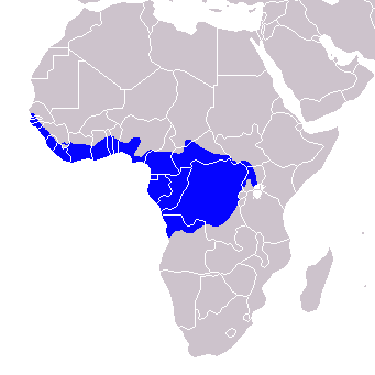 Tockus fasciatus - Distribution